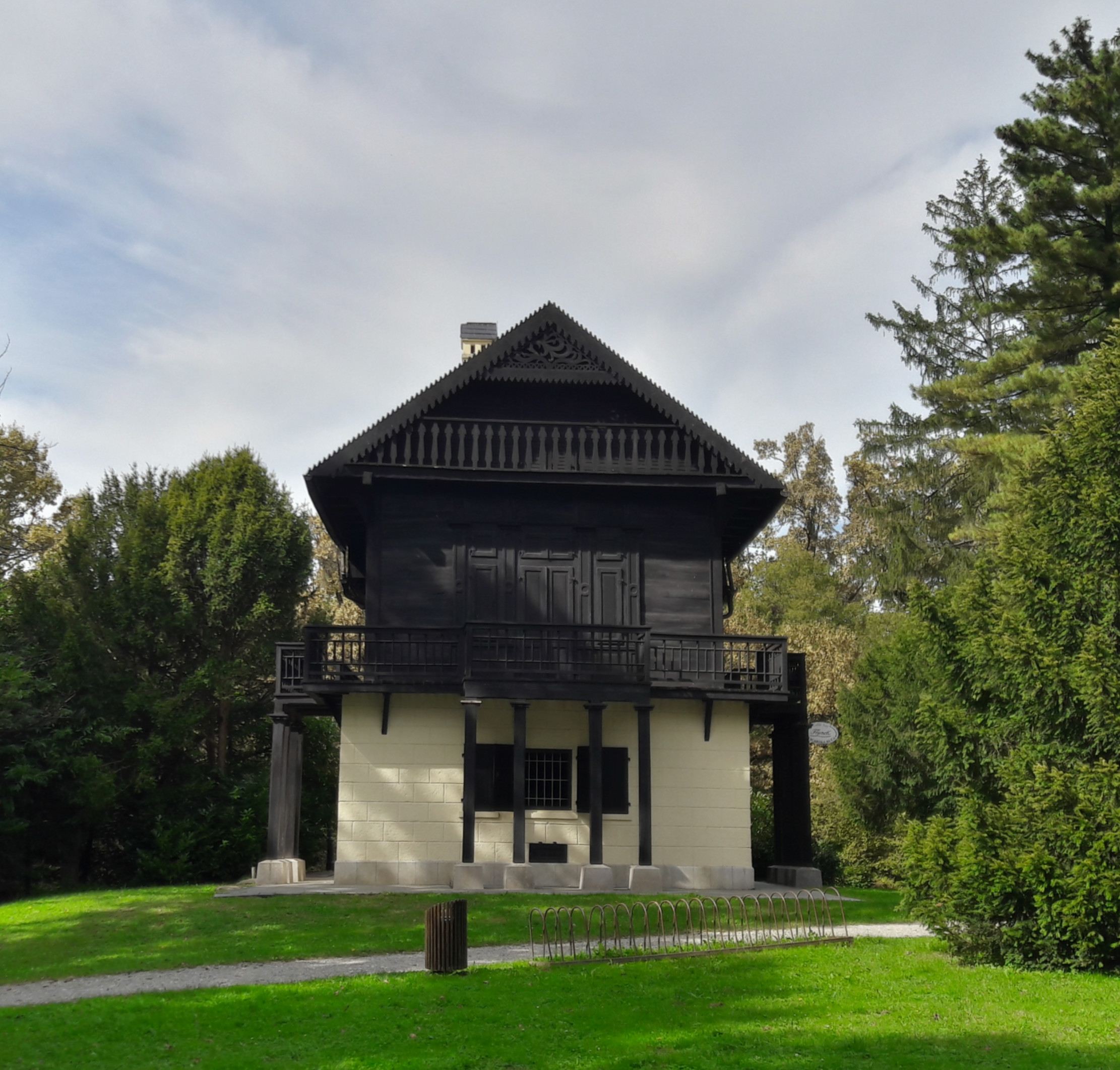 The Swiss House in Maksimir